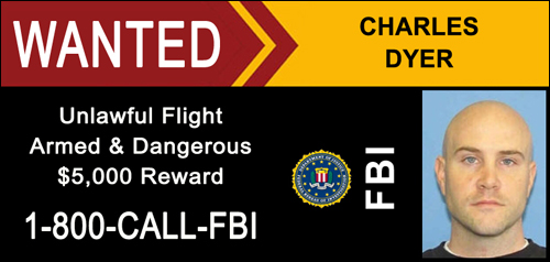 Digital billboards depicting Dyer’s image were be continuously displayed in Oklahoma, Texas, Louisiana, Mississippi, Alabama, Florida, Georgia, Tennessee, Virginia, Arkansas, North Carolina, and South Carolina.